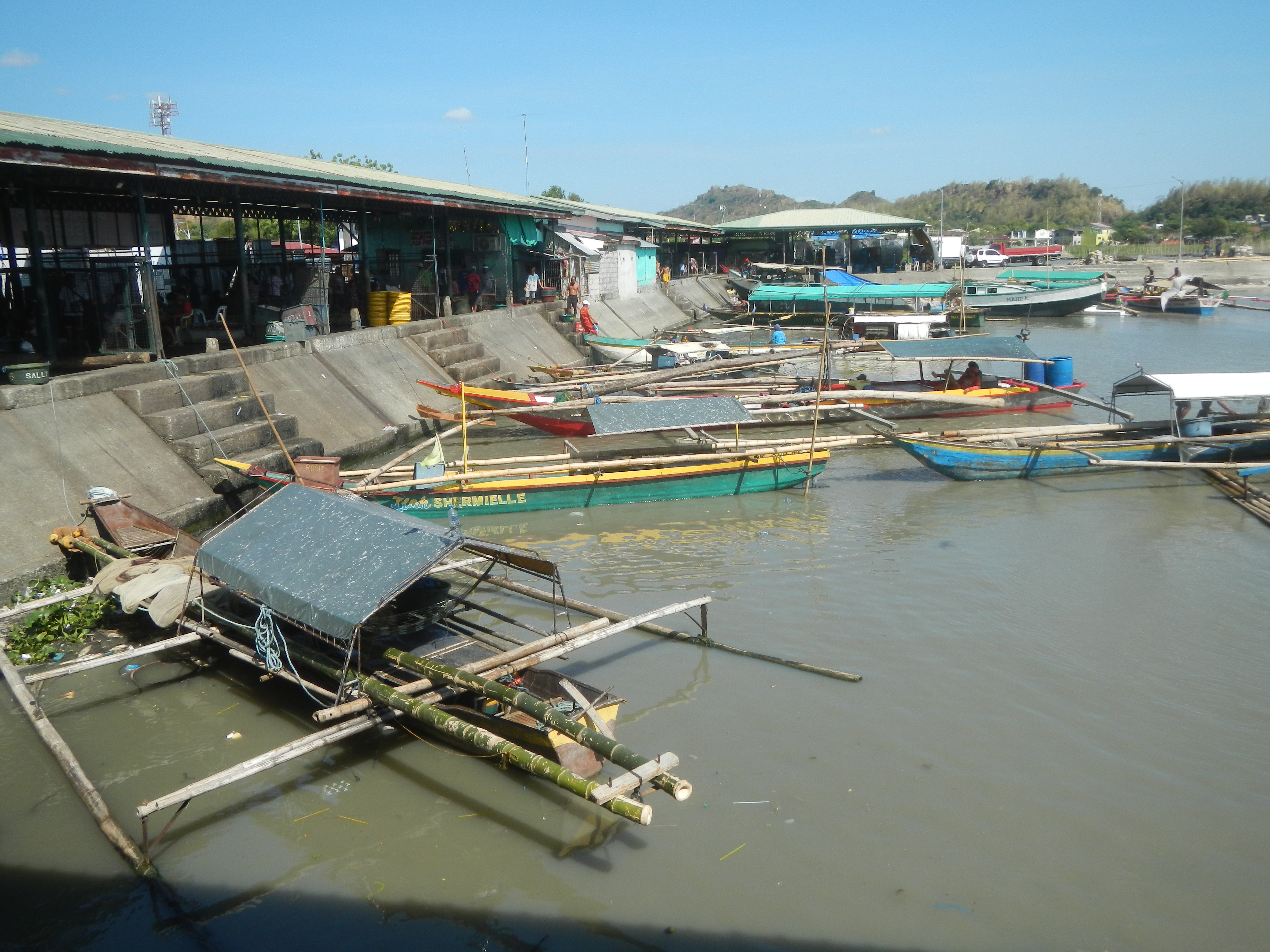 Binangonan Fish port - Wharf Binangonan National Highway Category:Barangays of RizalBarangay Libis, Binangonan, Rizal 14.4712, 121.1873 Binangonan (Note: Judge Florentino Floro, the owner, to repeat, Donor Florentino Floro of all these photos hereby donate gratuitously, freely and unconditionally all these photos to and for Wikimedia Commons, exclusively, for public use of the public domain, and again without any condition whatsoever).